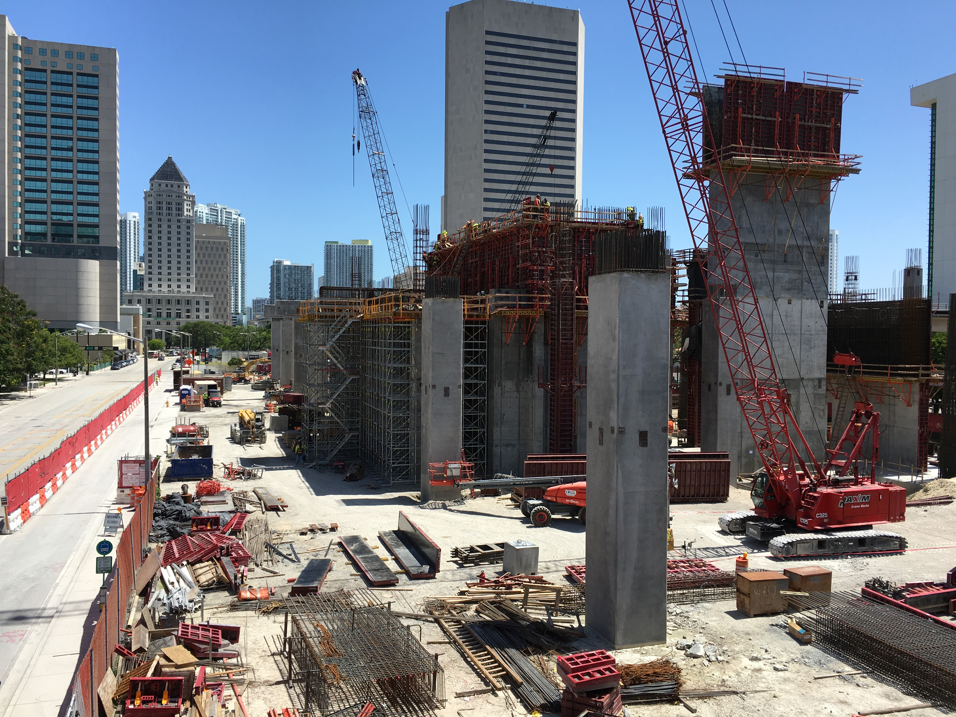 "All AboardMiamiCentral Florida Brightline Station Construction Downtown Miami"